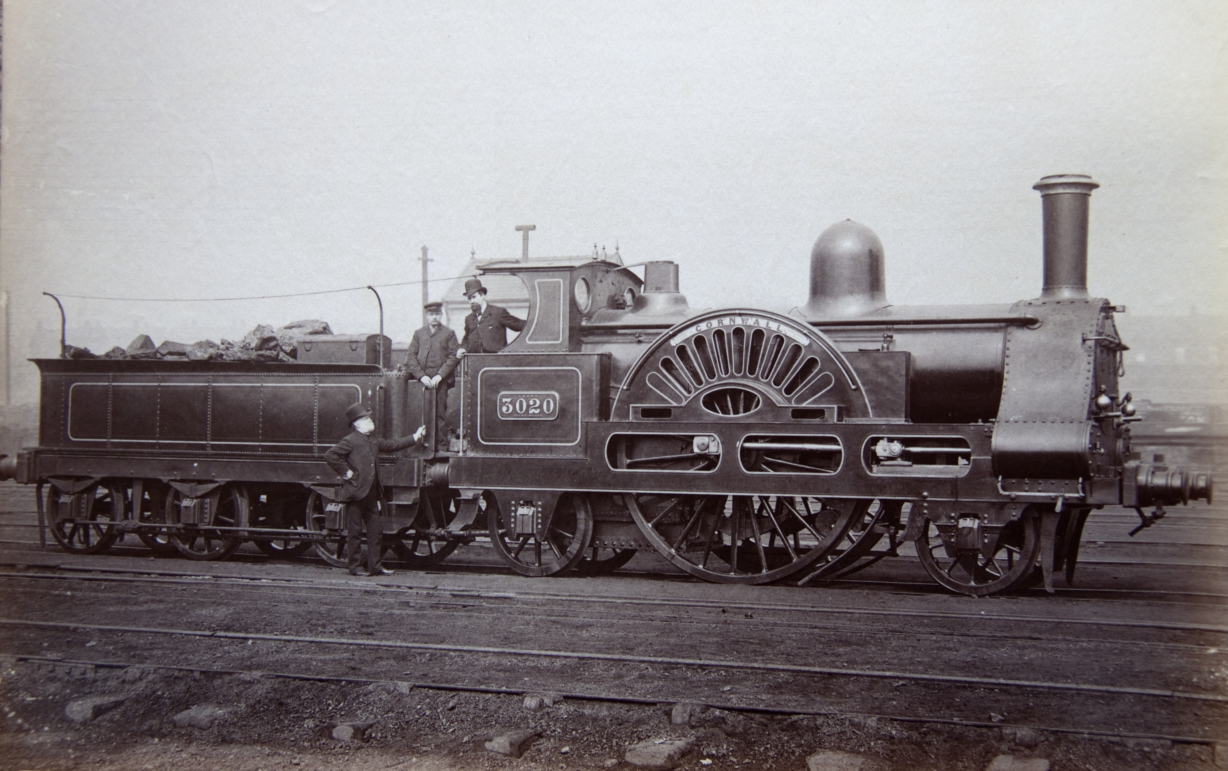 London & North Western Railway 2-2-2 No. 3020 Cornwall photographed at Ordsall Lane shed, Manchester, c1890. She was built at Crewe as a 4-2-2 in 1847, but was extensively rebuilt, converted to a 2-2-2 in 1858 and was set aside for preservation in 1933. Now held by the National Railway Museum. This photo was taken from an old original photo we came across while helping to clear the house of a deceased friend. I have uploaded it to Flickr in the hope that it might be interesting to steam enthusiasts.